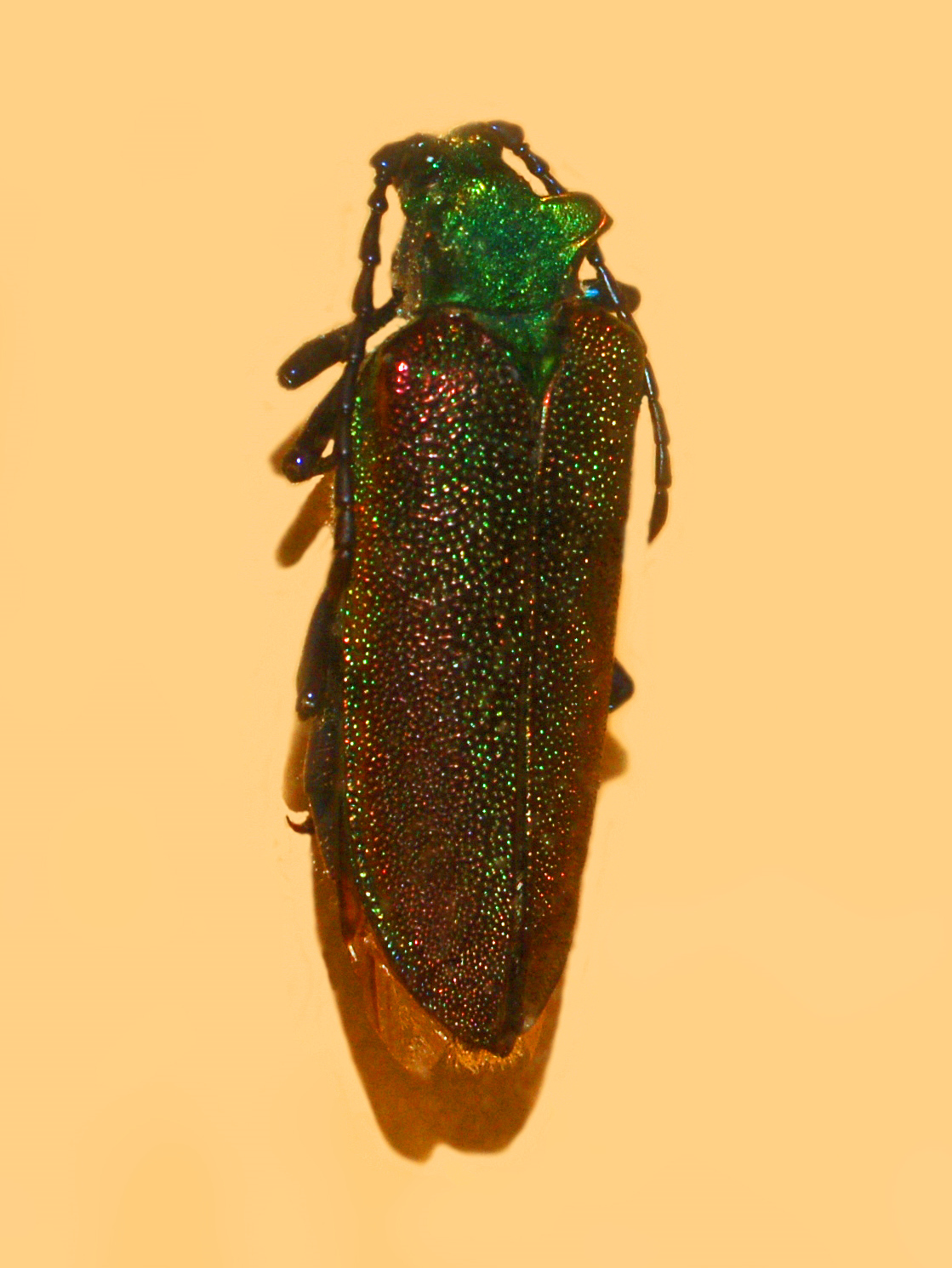 Female of Cheloderus childreni from Chile